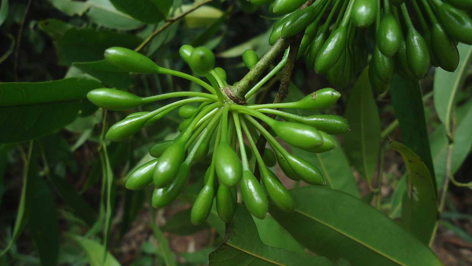 Guatteria australis A.St.-Hil., Annonaceae, Atlantic forest, northeastern Bahia, Brazil